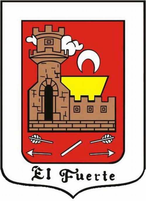 Seal of El Fuerte